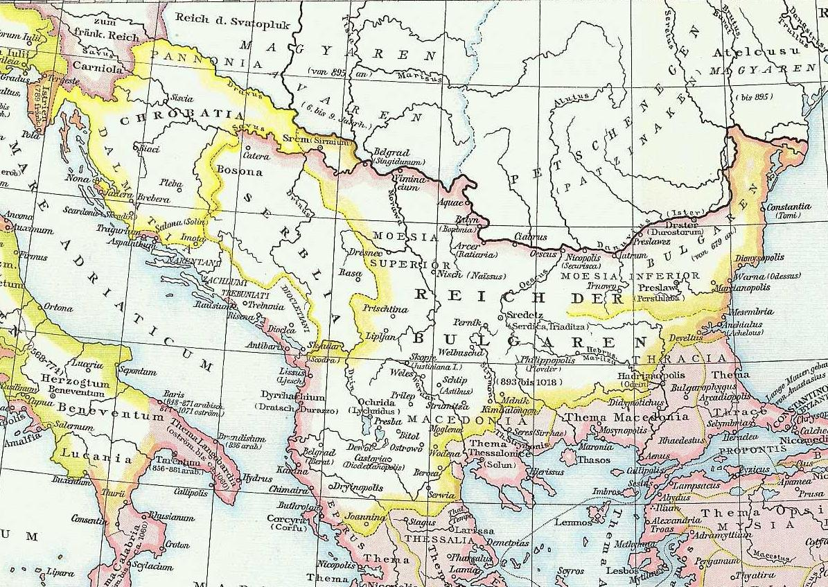 Map of the Balkans (part of Byzantine Empire) taken from G. Droysens Allgemeiner Historischer Handatlas, Verlag Velhagen und Klasing 1886